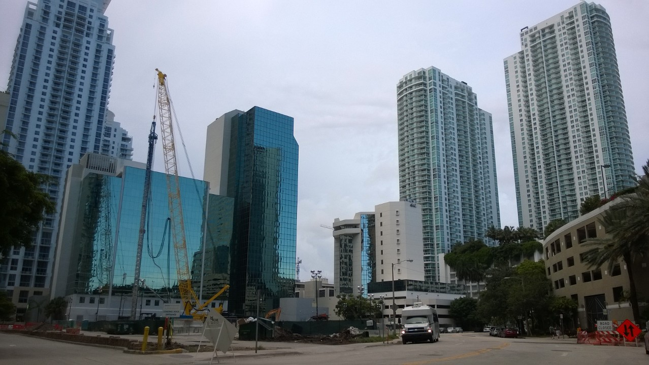 Site prep and or foundation work for Panorama Tower.